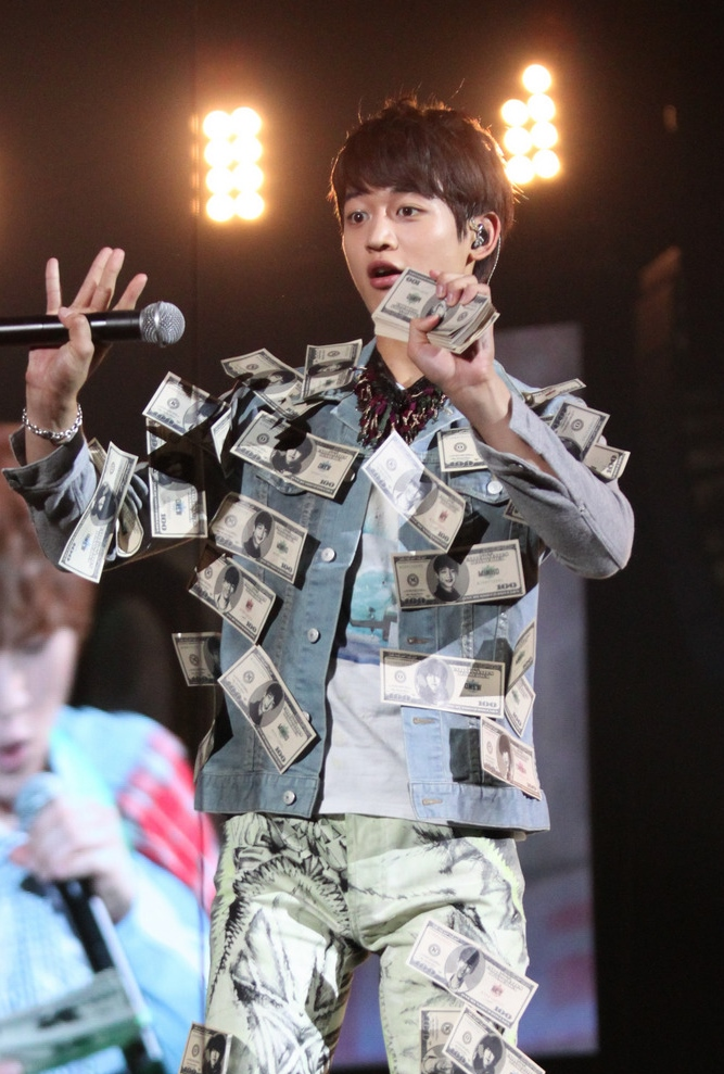 Minho at the SHINee World Concert II in Taiwan on September 15, 2012.